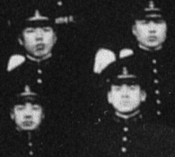 Harada Kaku and Kusakari Eiji